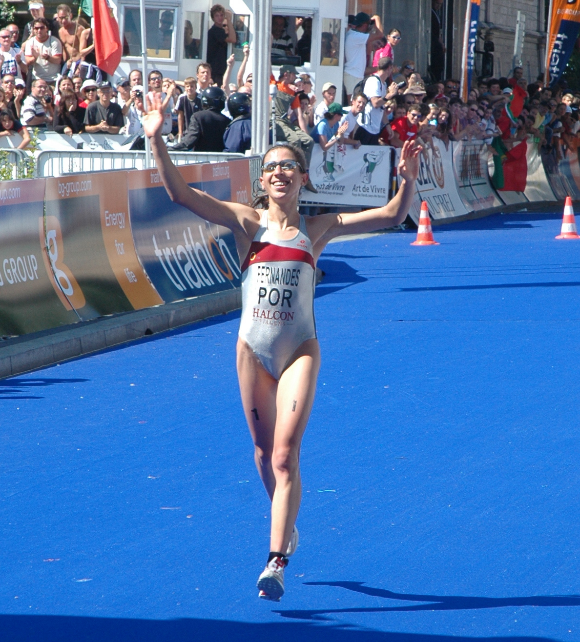 The portuguese triathlete Vanessa Fernandes finishes the Triathlon WM 2006 in Lausanne as number two